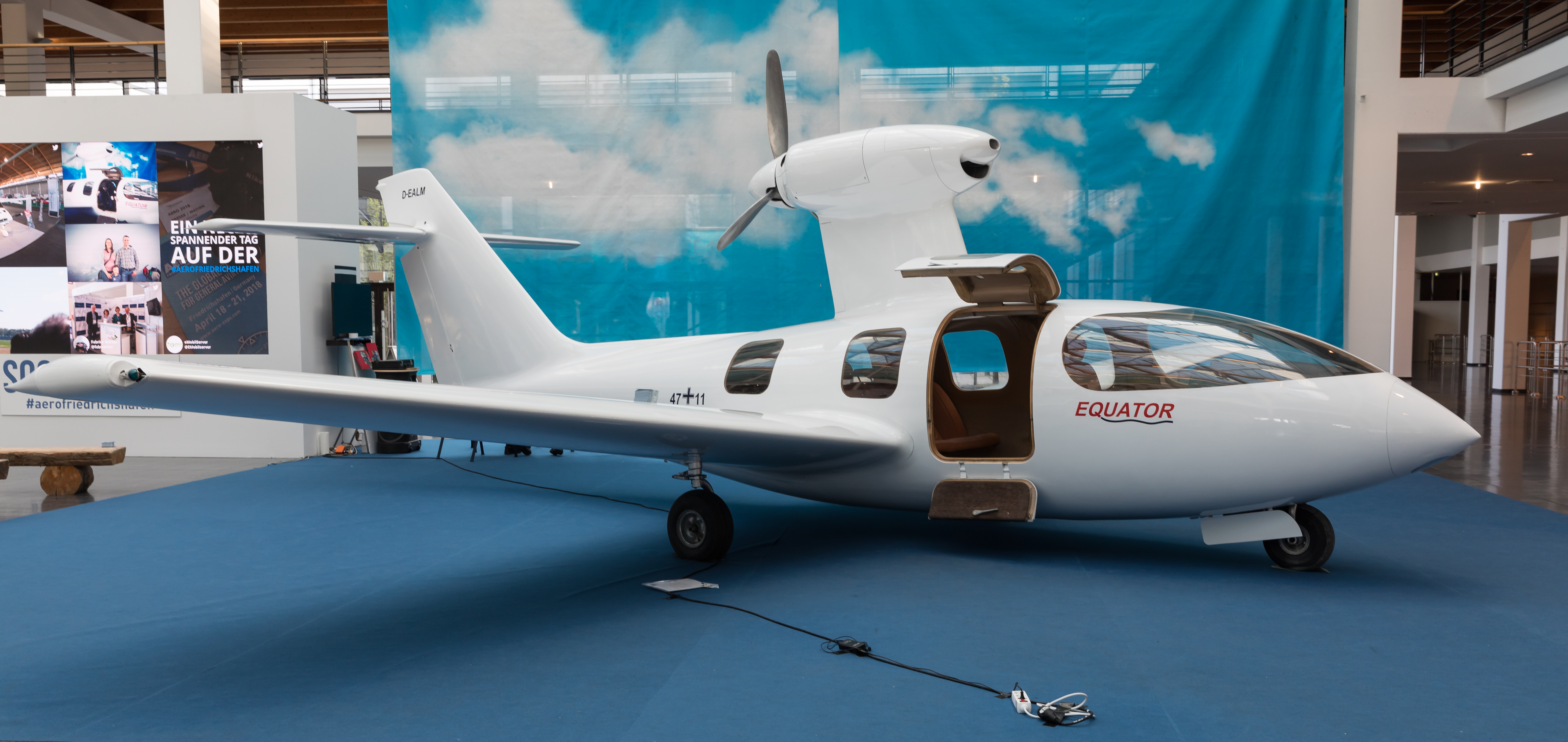 AERO Friedrichshafen 2018